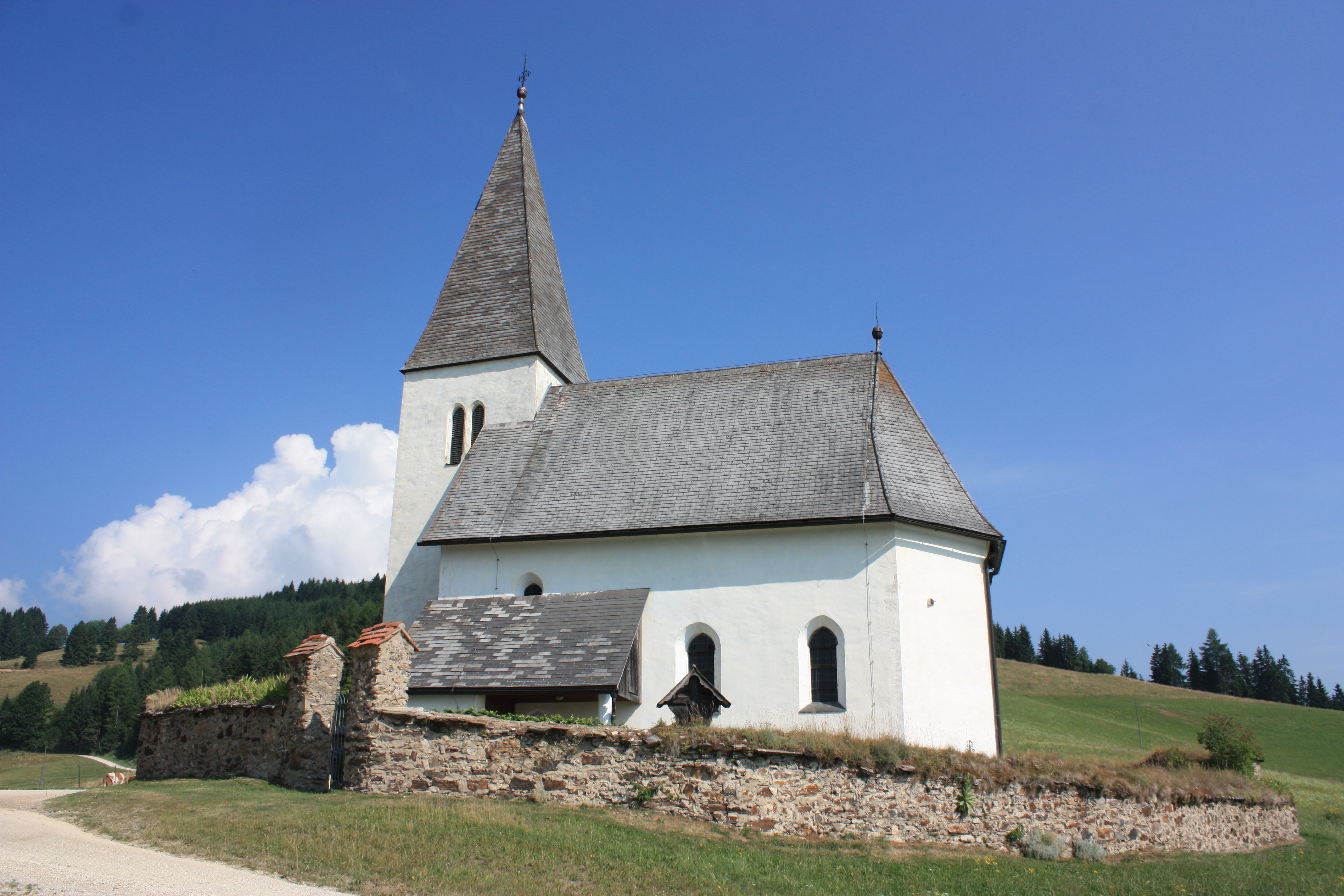 Church of Tschrietes in the community of Griffen